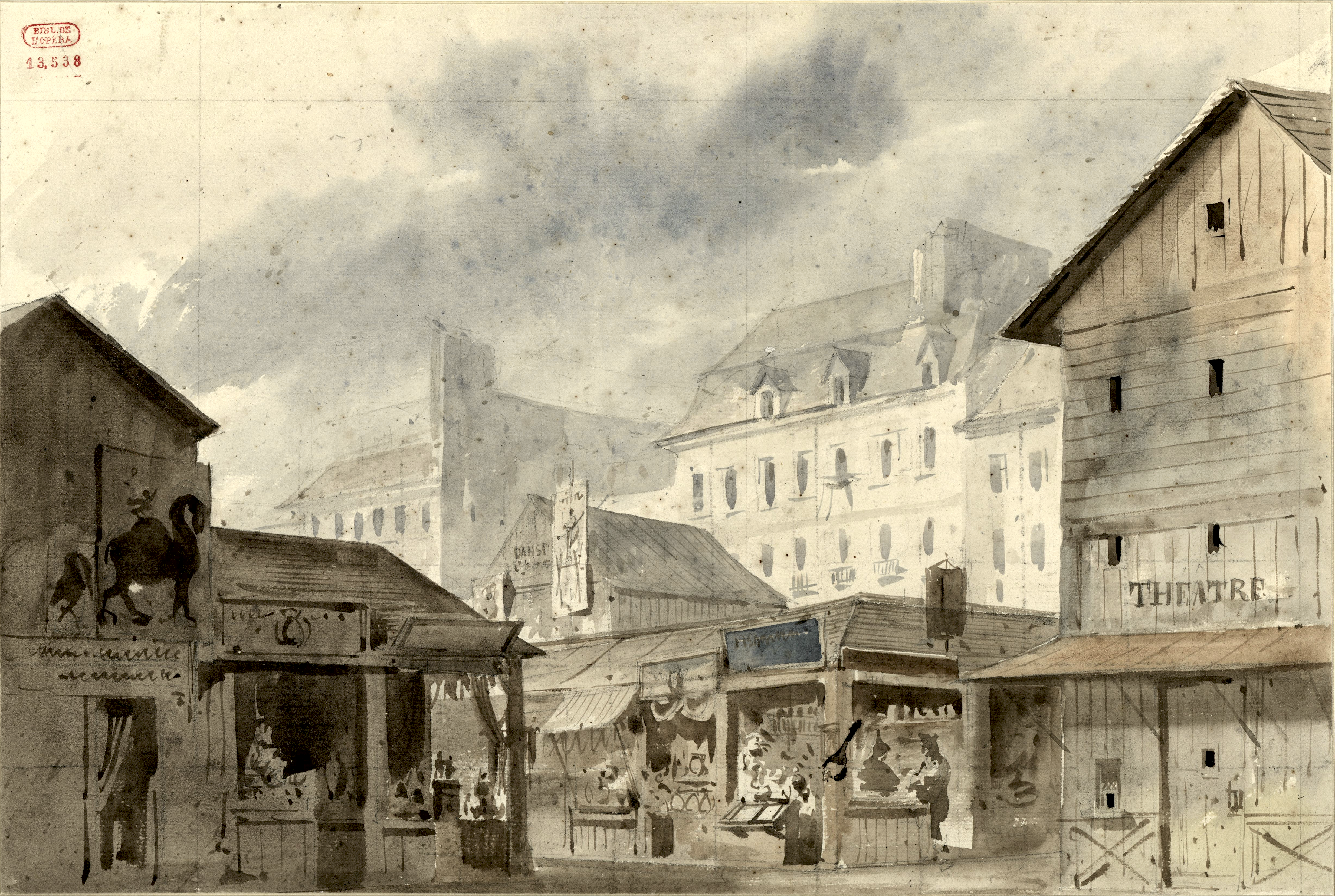 Esquisse de décor pour Manon Lescaut : roman en six chapitres et trois actes / décors de Pierre-Luc Charles Cicéri. - Paris : Théâtre de l'Odéon, 26-06-1830.